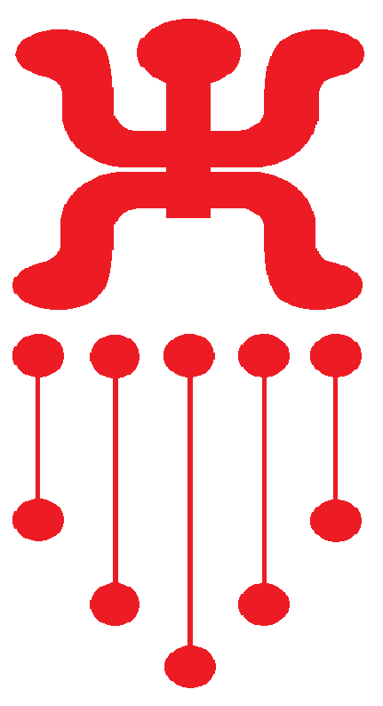 The unique religious symbol, used by the Bengali Hindus of India and Bangladesh is commonly referred to as Swastika by the Bengali Hindus.